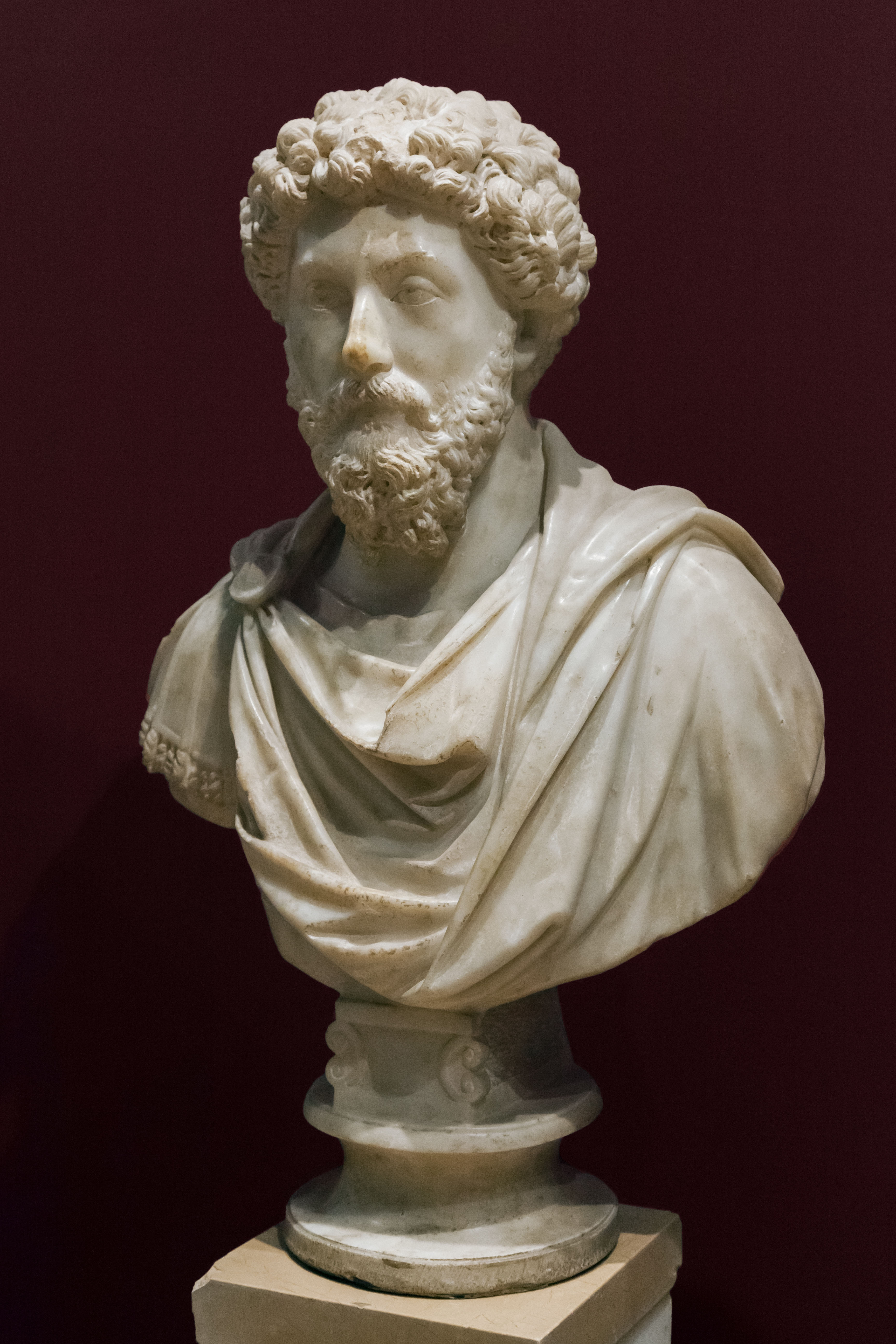 Portrait of the emperor Marcus Aurelius, Archaeological Museum of Istanbul, Turkey.